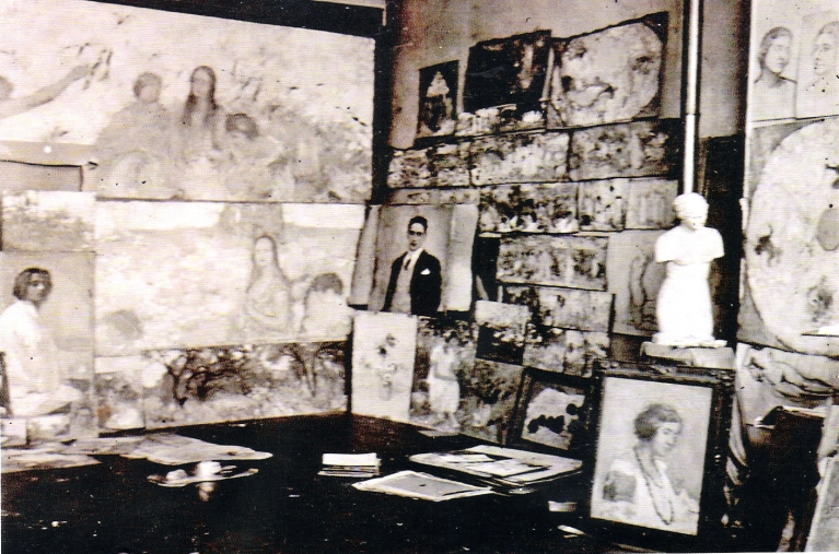 The photography depicts the atelier of the romanian artist Sever Burada, located at Rue Émile-Allez (Paris) in the year 1925.